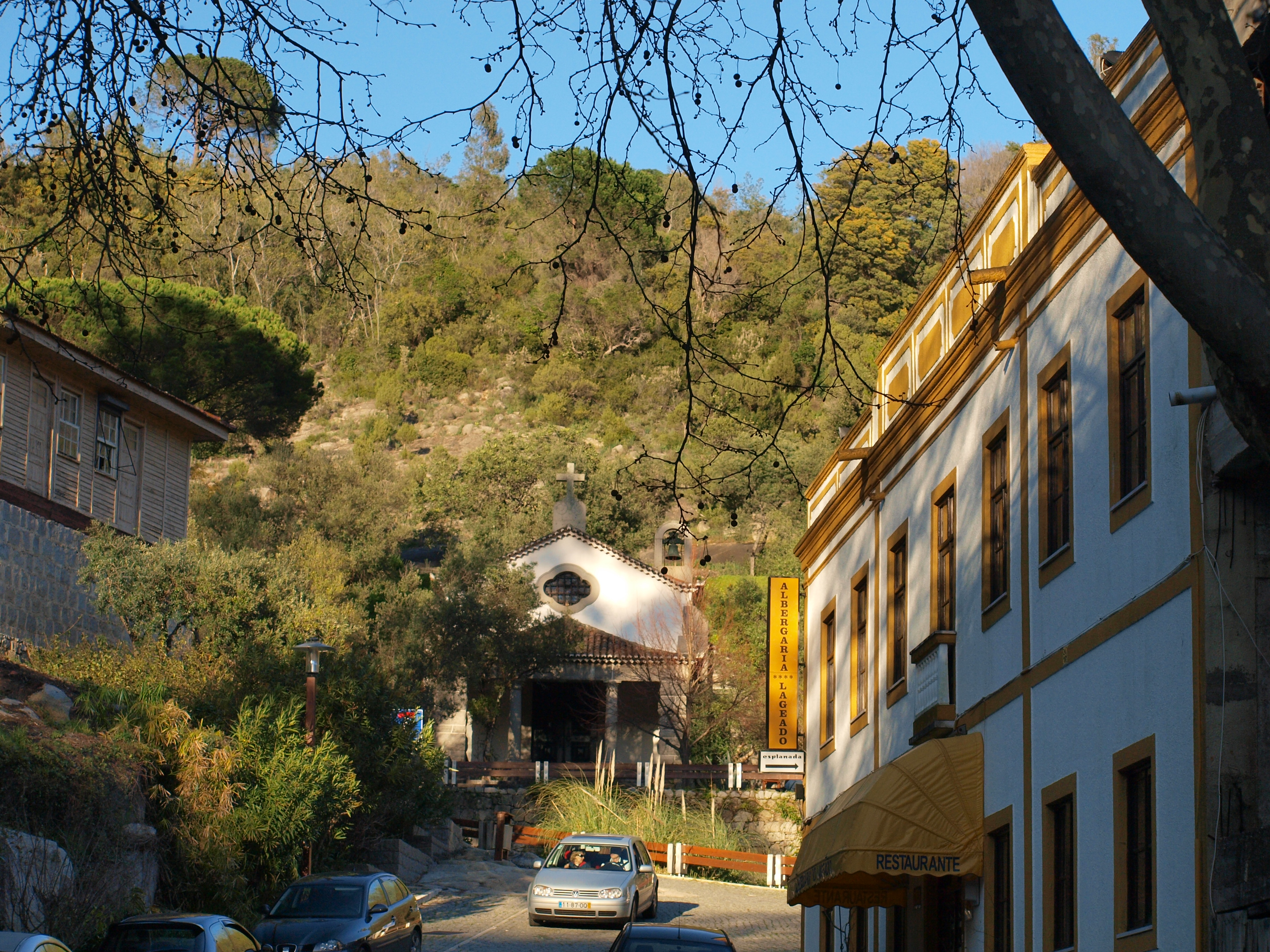 Caldas de Monchique, Algarve, Portugal.